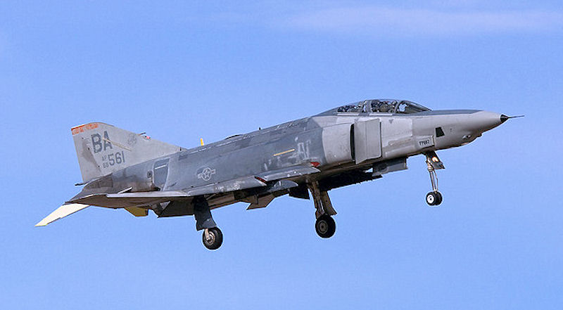 91st Tactical Reconnaissance Squadron McDonnell Douglas RF-4C-37-MC Phantom 68-0561 Retired to AMARC as FP887 Sep 1, 1992. Still on AMARC inventory Jan 15, 2008.